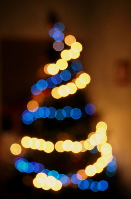 An out-of-focus christmas tree demonstrating bokeh.